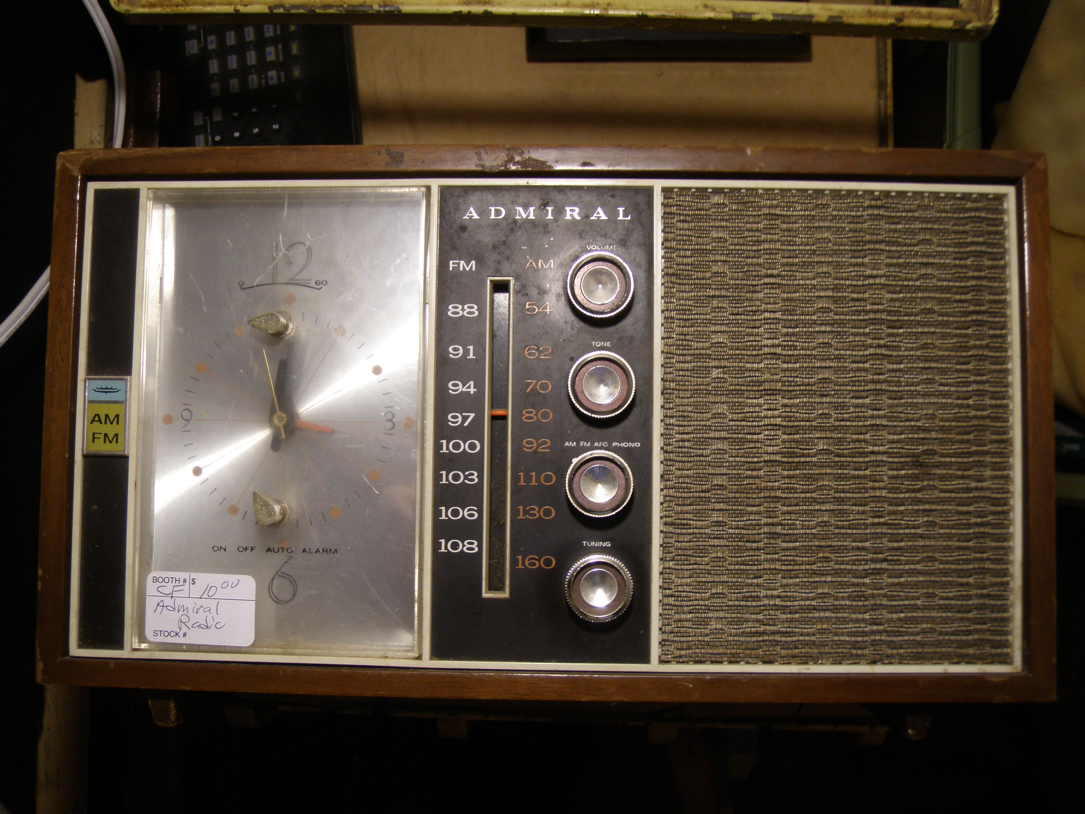 Admiral electronics radio. This is the 1966 year model (same cabinet was used with various boards and speaker arrangements), made in Japan [1]